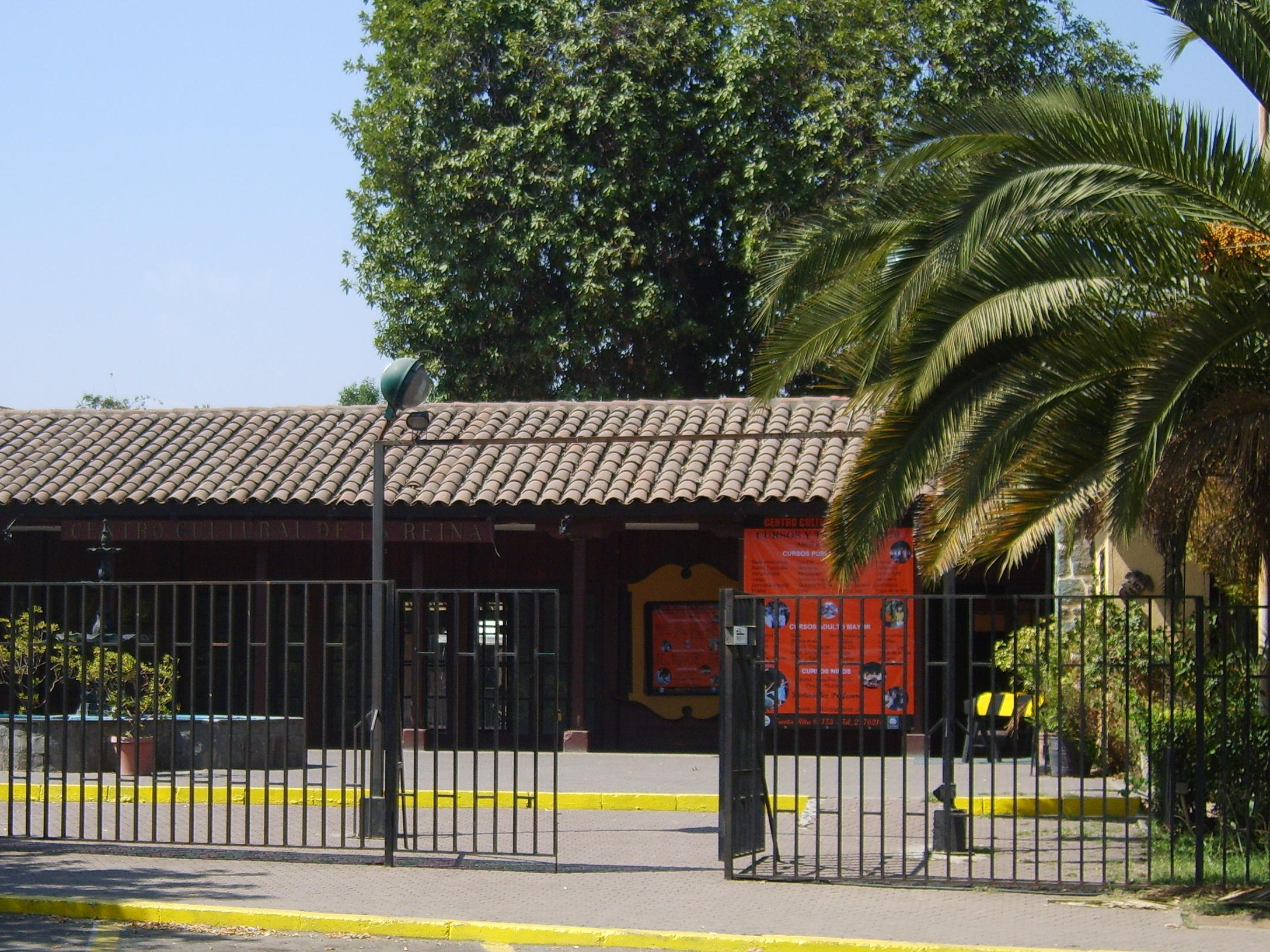 Cultural center of La Reina, Santiago de Chile